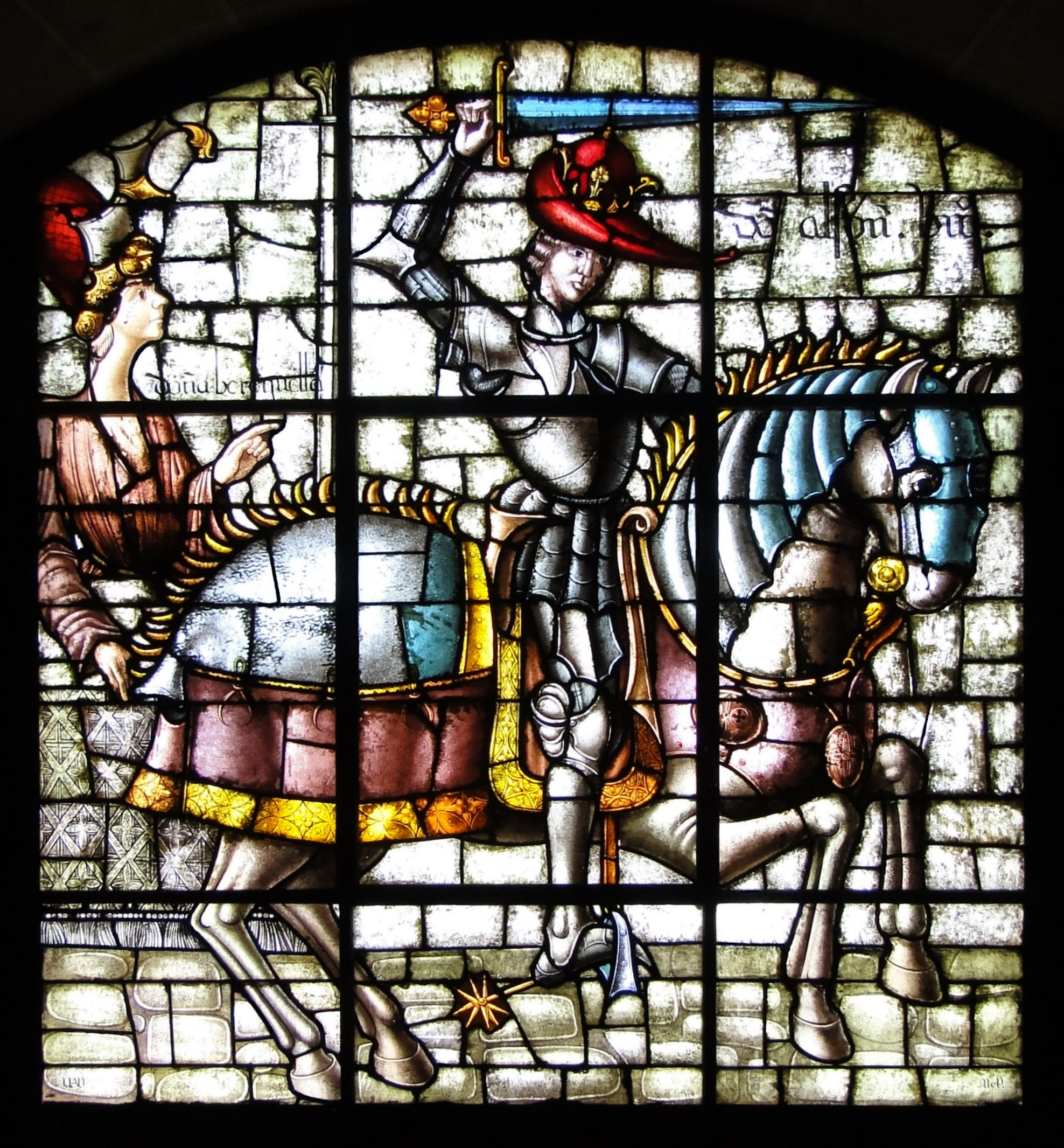 Stained glass in Hall of the Pine Cones in Alcázar of Segovia. It depicts King Alfonso VIII of Castile and his daughter Berengaria. Located in Segovia, Spain.